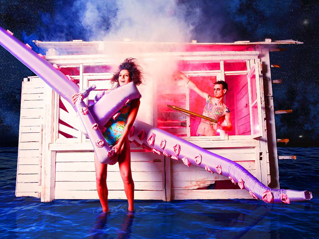 Unknown description